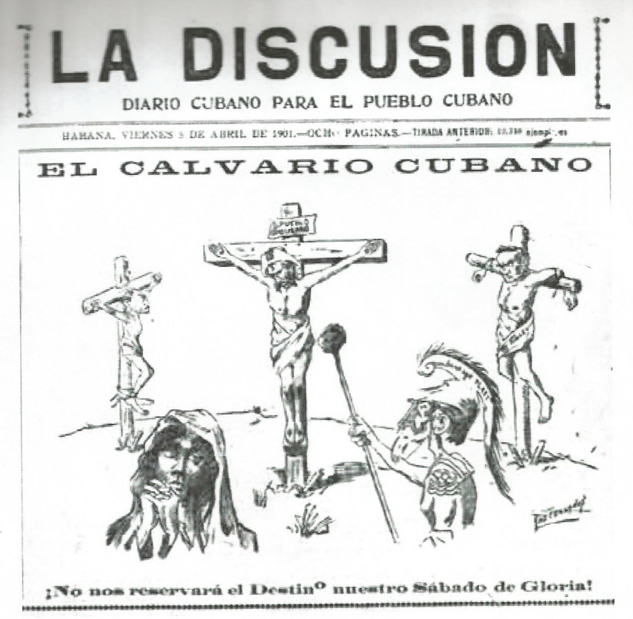 Cartoon run in La Discusion on April 5, 1901 drawn by Jesus Castellanos. The cartoon is criticizing the then recently passed Platt Amendment in the US that said that the US was allowed to intervene in Cuba's domestic policy if warranted